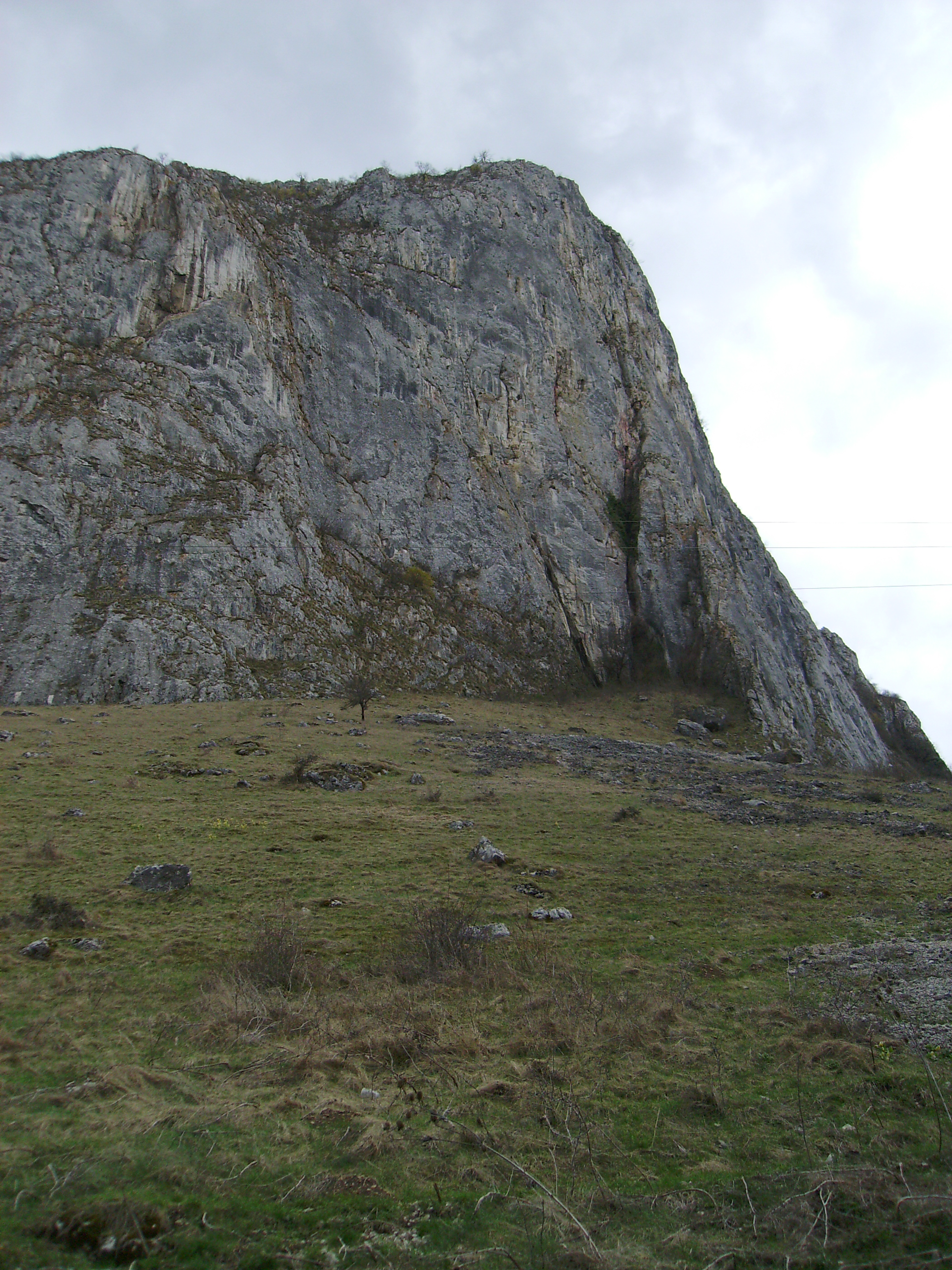 Western end of Cheile Aiudului (known also as "Cheile Vălişoarei"), Transylvania, Romania